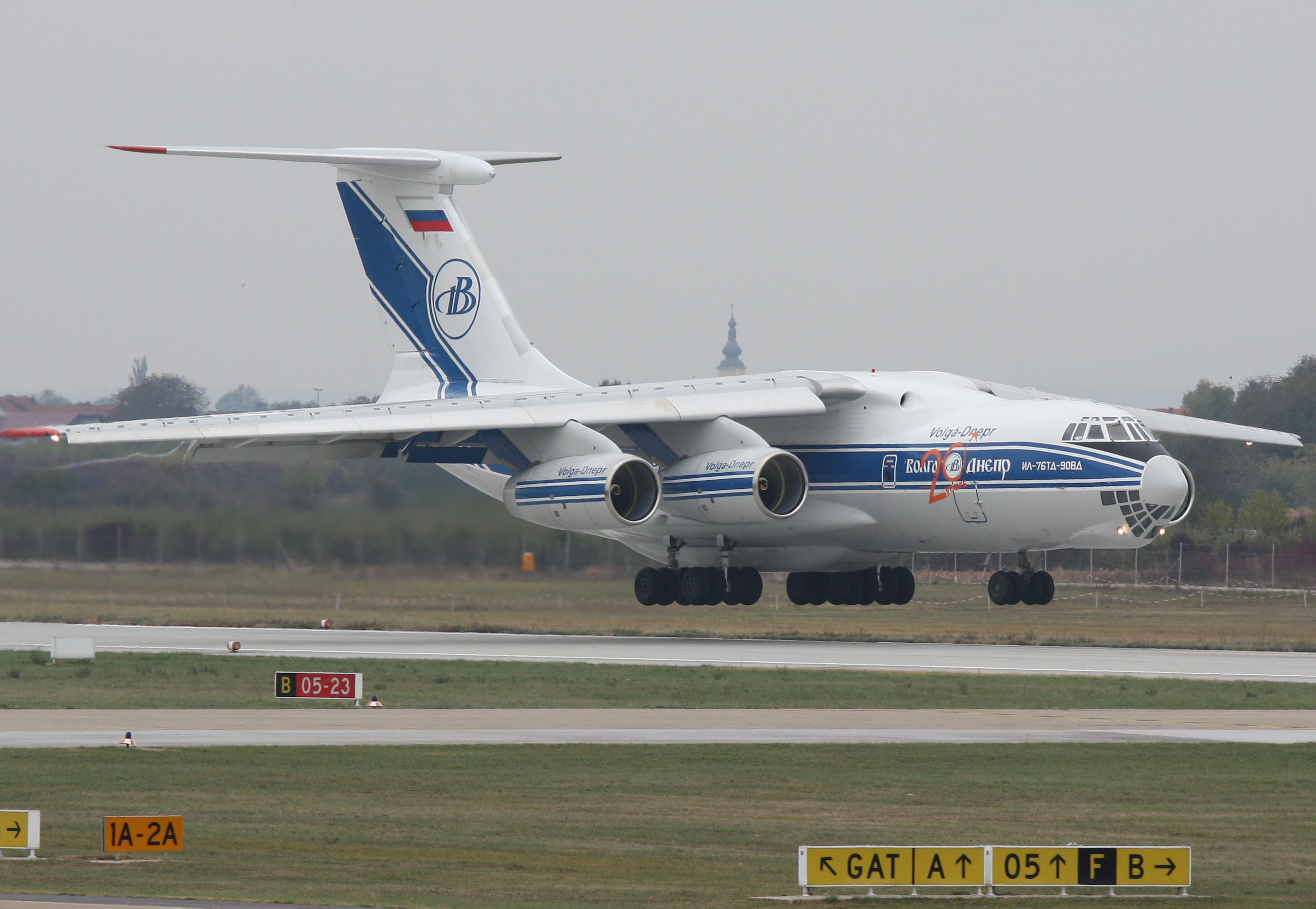 Volga-Dnepr Airlines Ilyushin Il-76TD-90VD